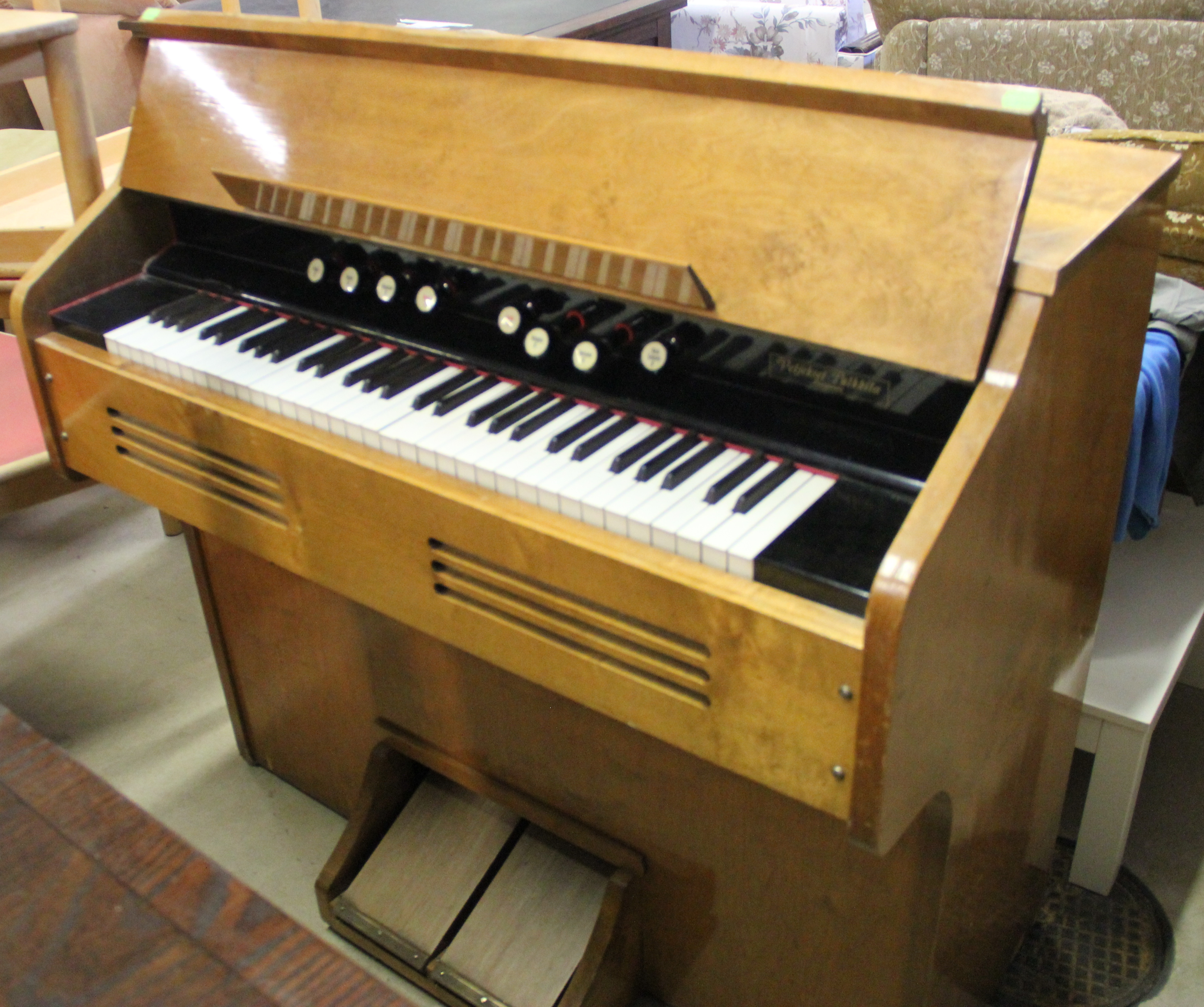 Harmonium, made by Veljekset Pulkkila (=Brothers Pulkkila), Kangasala, Finland